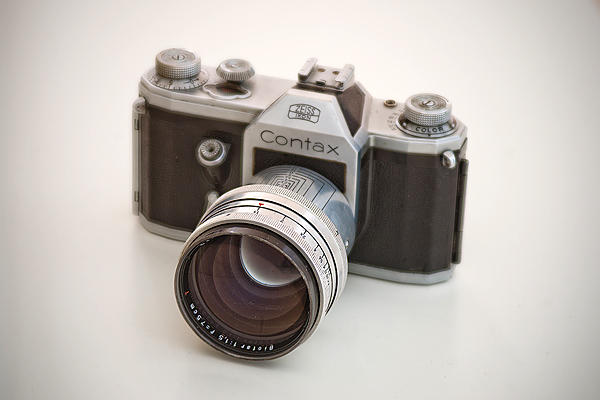 Zeiss Biotar 7.5 cm 1:1.5 mounted on Contax D SLR